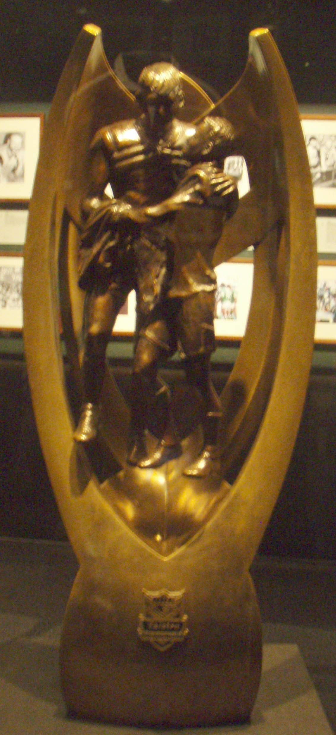 The NRL trophy